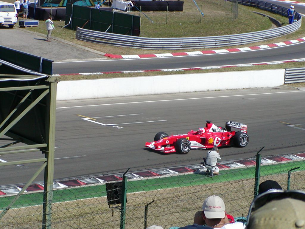 Ferrari driving to start grid at the 2003 Hungarian Grand Prix.